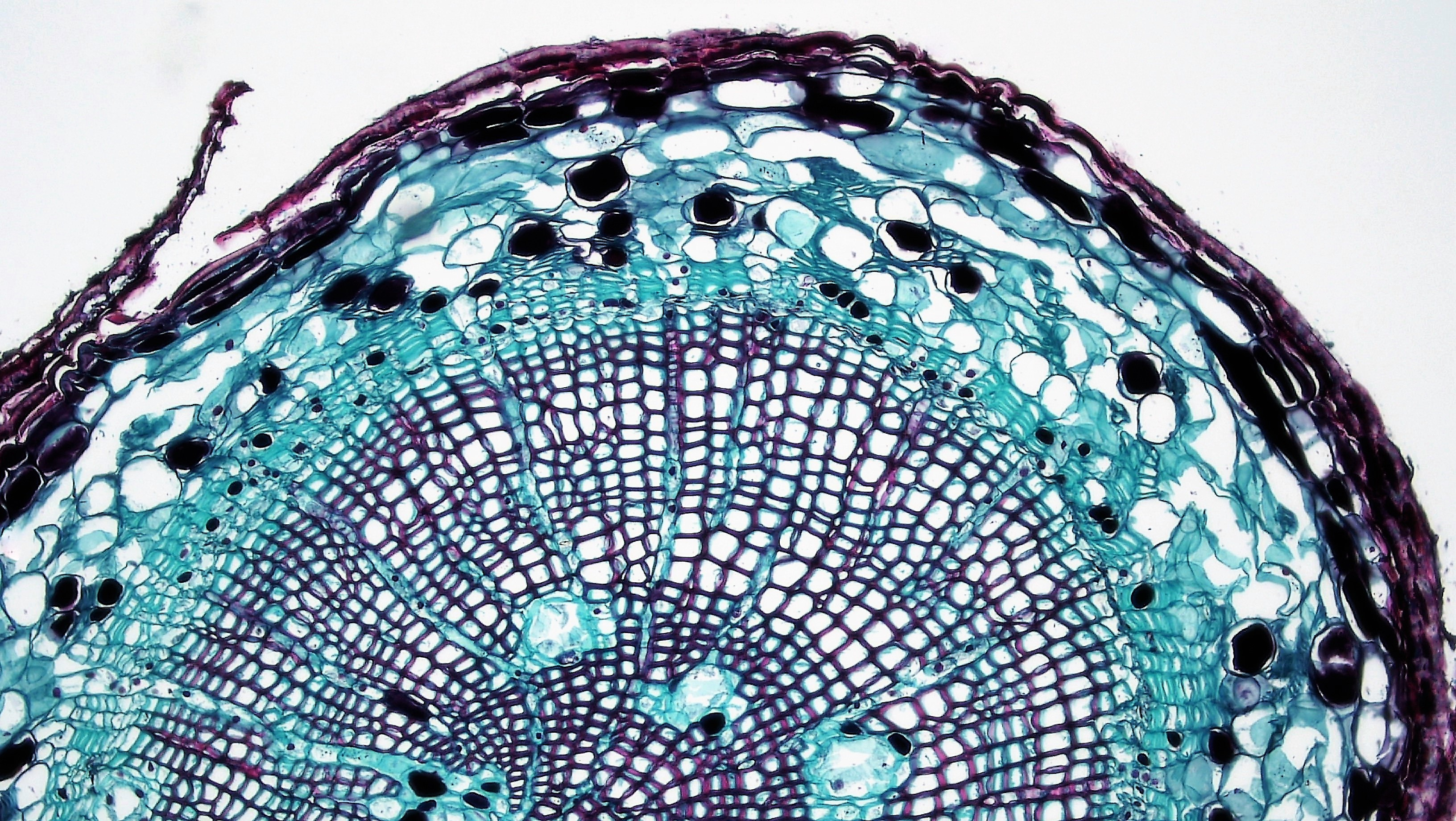 Cross section: Secondary Growth in Pinus root magnification: 100x In young roots, the vascular cylinder is surrounded by two rings of cells, the pericycle and endodermis, and above these layers the cortex and epidermis. In older roots underling activity of the cork cambium replaces epidermal and a portion of cortical tissues with a protective zone of cork rich periderm. A well developed cortex of 4 to 5 layers of thin-walled parenchymatous cells contains clusters of sclerenchymatous stone cells and small resin canals. The inner-most layer of the cortex is marked by a single- layered endodermis of brown suberized cells containing dark staining tannin. Just below the endodermis is a multi-layered pericycle containing tannin and starch grains. The vascular cylinder or stele consists of an outer narrow ring of phloem,and deep to this, the vascular cambium. The vascular cambium produces annual growth of secondary phloem towards the outside of the root and secondary xylem towards center of the root. Crushed primary phloem is present outside the secondary phloem. Because of greater production of xylem, the bulk of the vascular cylinder is dominated by radially arranged rays of secondary xylem interspaced with medullary rays of parenchyma cells. Annual growth rings of spring and summer wood is difficult to distinguish in roots . The xylem has no true vessels, consisting entirely of tracheids. The phloem consists of sieve tubes and phloem parenchyma, lacking companion cells. The center of the root is occupied by small degenerated pith surrounded by primary xylem and large resin canals.